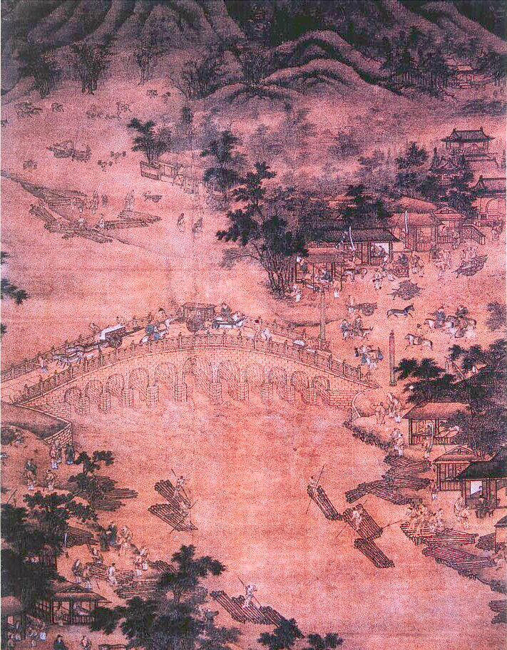 The Lugou Bridge (Marco Polo Bridge), constructed from 1189 to 1192, although the current bridge was reconstructed in 1698.